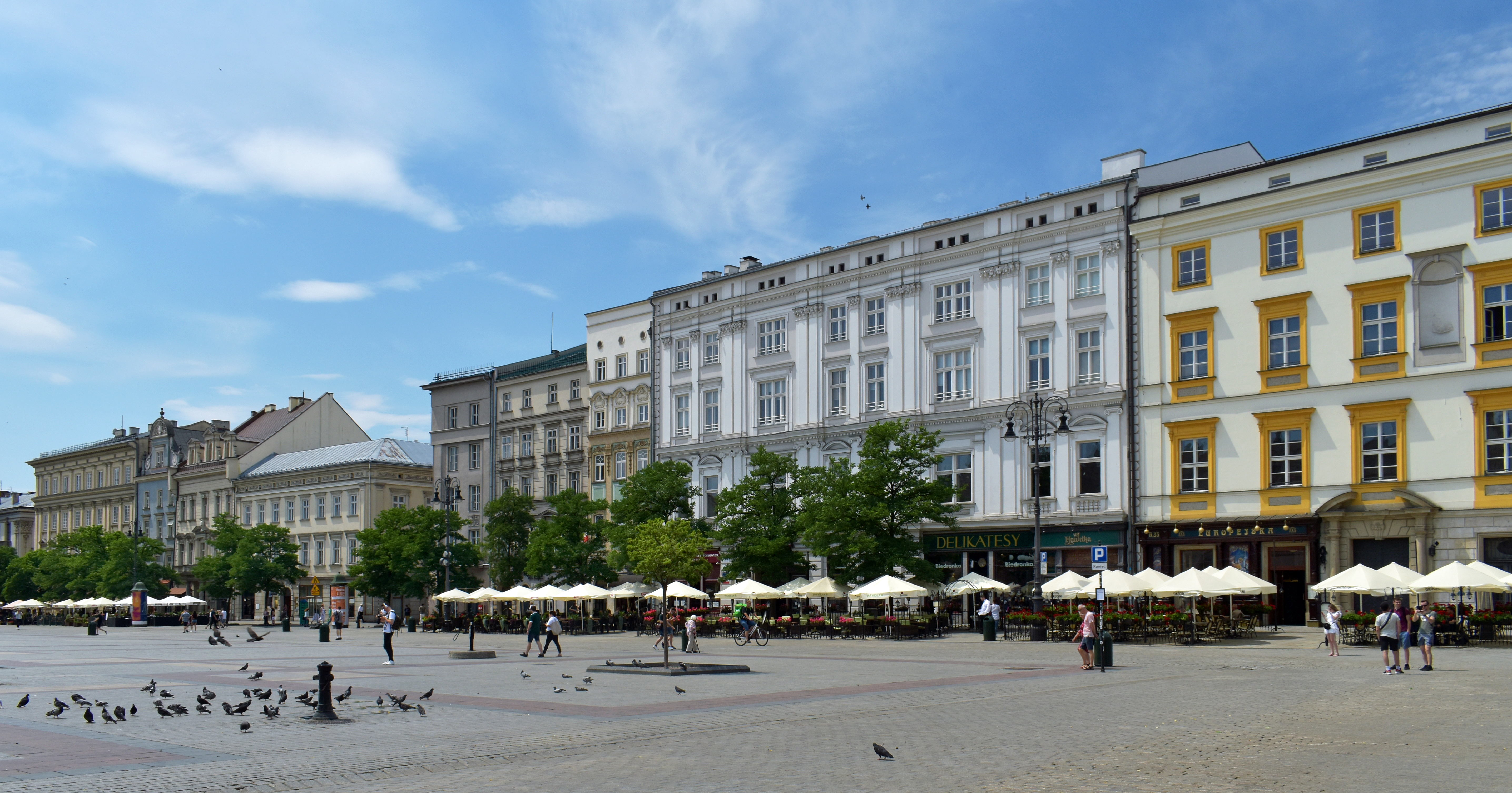 Main Market square, west frontage (C-D Line), Old Town, Krakow, Poland